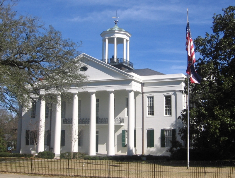 author: William Eaton, Feb. 5, 2006